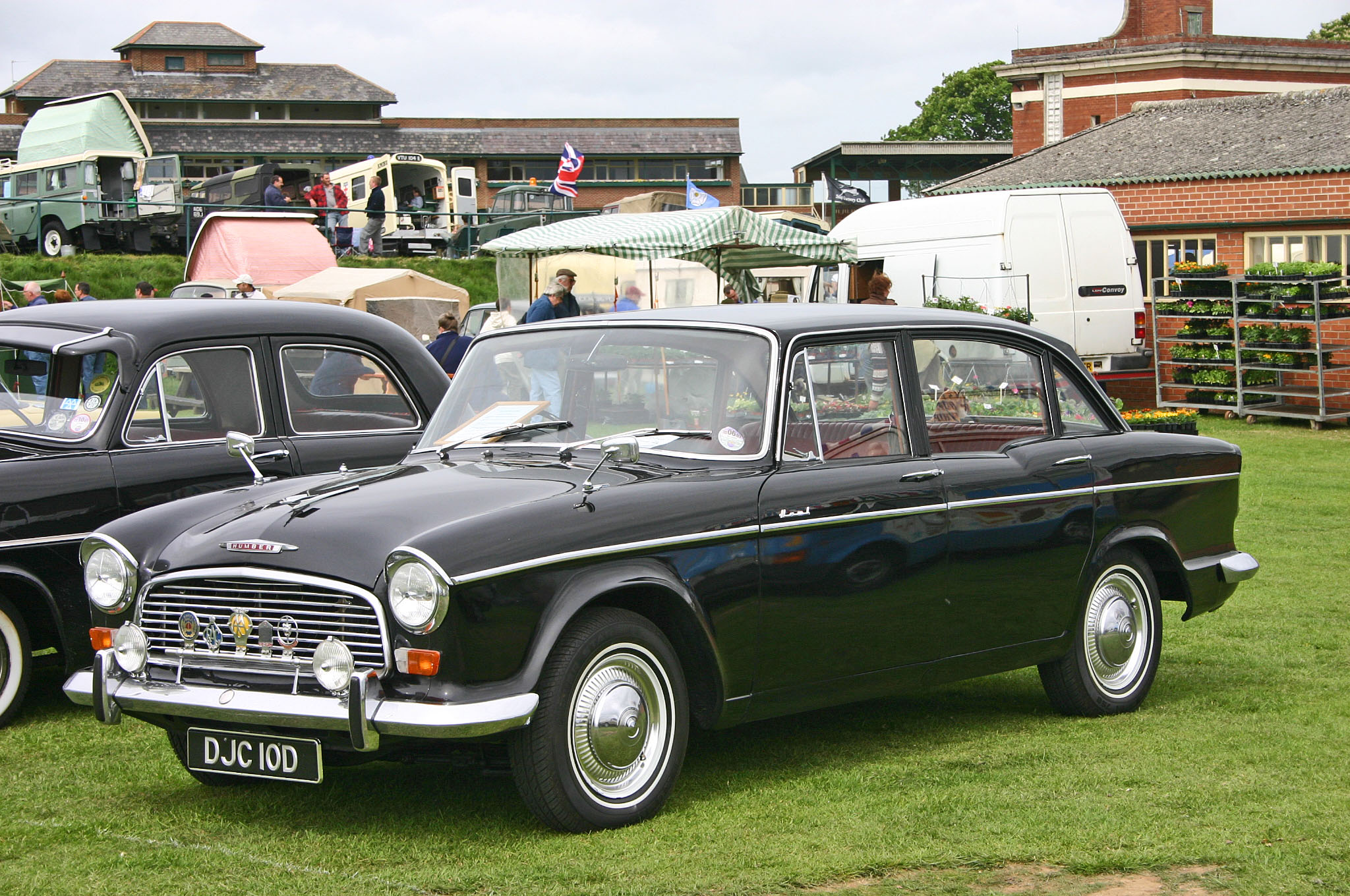 Humber Hawk Series IV. Much changed from the Series III, both Hawk and Super Snipe got taller windows and a new third side window to accompany a flatter rear screen.